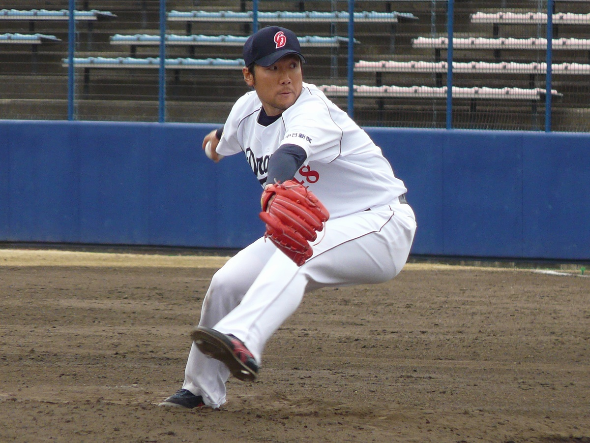 CD-Shinsuke-Saito20120322